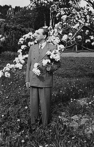 Norwegian passenger ship captain and World War II collaborator Kjeld Stub Irgens in his garden.